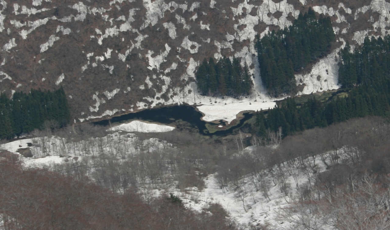 Okubonuma_from_Tsuruheishindo_2010-4-18